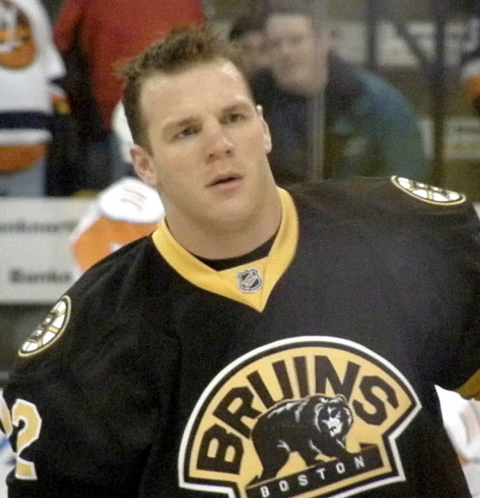 22 Shawn Thornton I think this is my favorite Shawn Thornton shot thus far